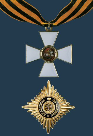 Russian Federation. Order of St George 2nd class. Reinstated after its abolition in 1917, the Order Of Saint George is the supreme military order of Russia, awarded to officers for brilliant military operations. It has four degrees (I through IV, the first being the highest) awarded successively.